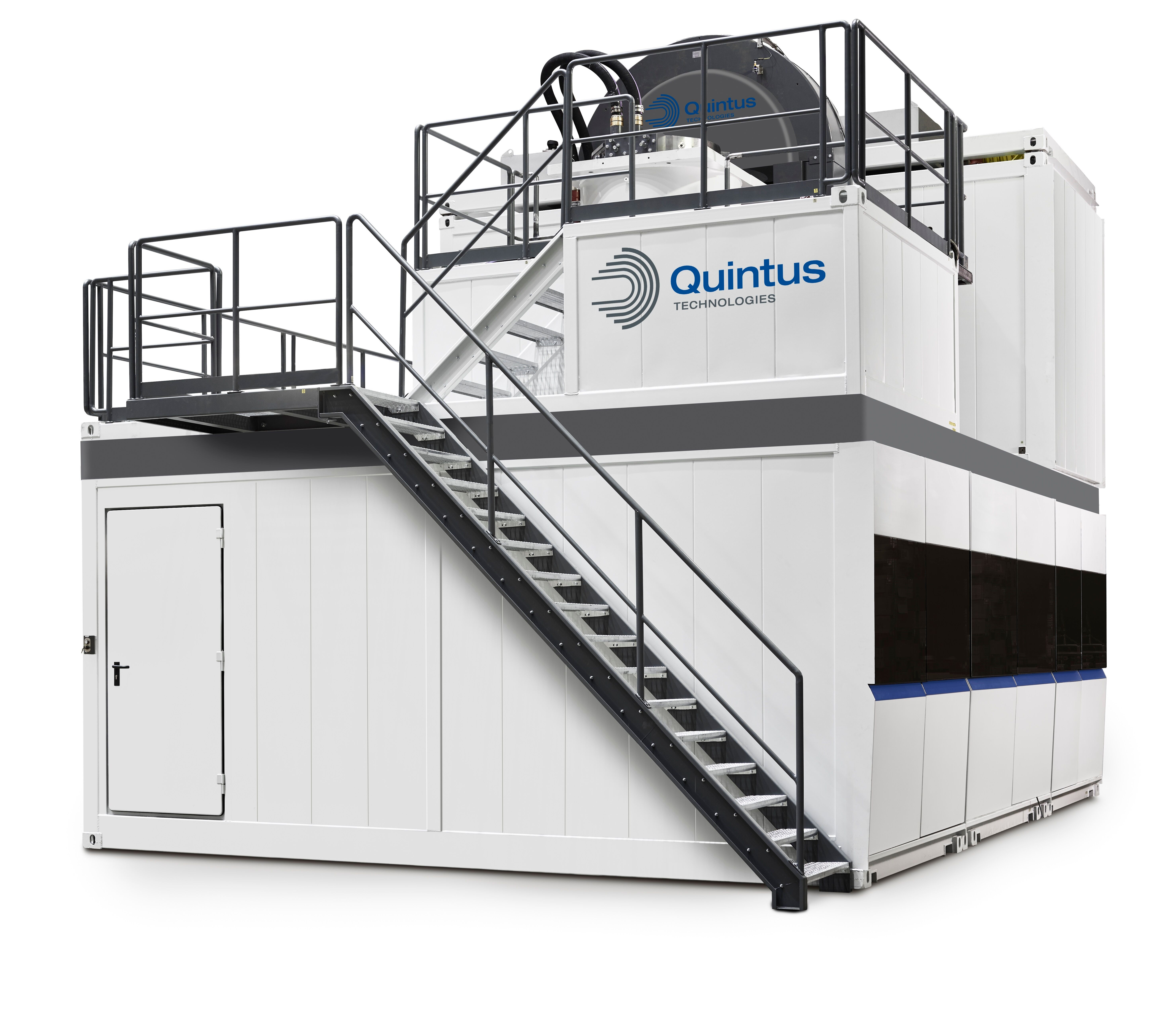 Hot Isostatic Press (HIP) from Quintus Technologies. The press, is equipped with Quintus’ proprietary uniform rapid cooling (URC), a feature that improves material properties in additive manufacturing and investment casting.